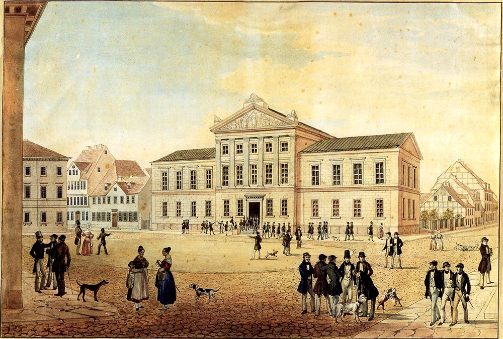 The sheet shows the University designed by architect Otto Prael (1793-1862), in 1835 the University Jubilee commenced and in 1837 completed construction of the Hall of the University of Göttingen, looking from the southeast corner of the castle on the road toward the "New Market".